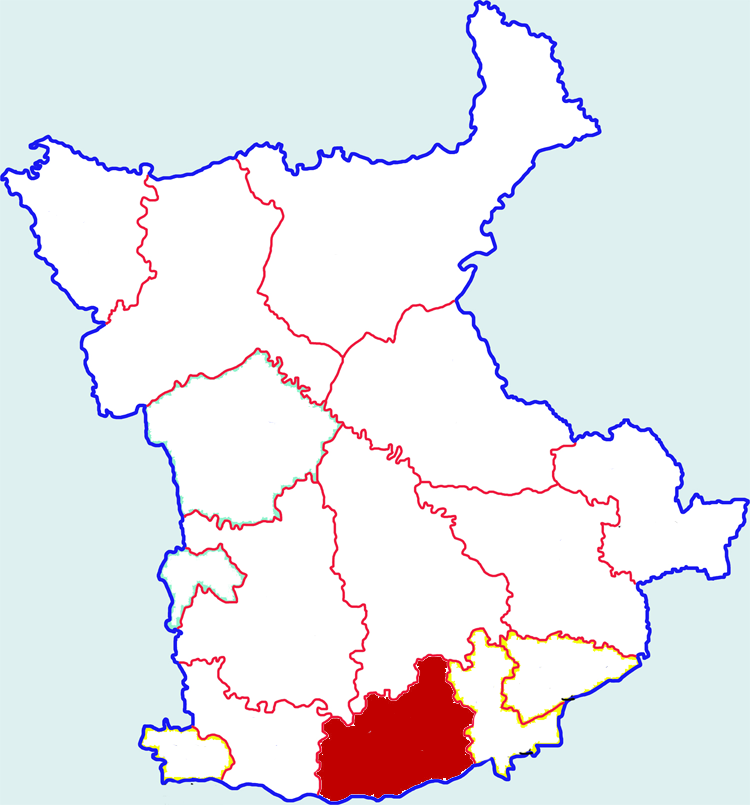 Location of Xingping county-level city in Xianyang city, China